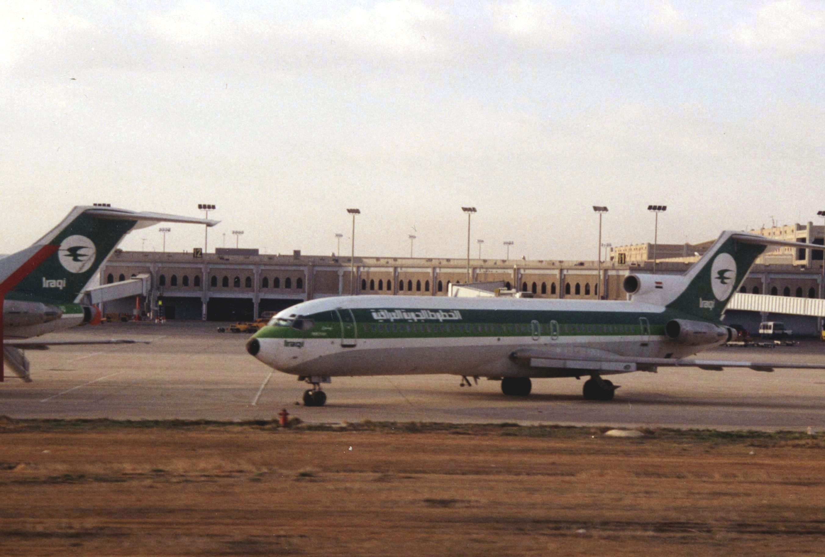 Iraqi Airways Boeing 727-270 YI-AGK stored at Amman Airport